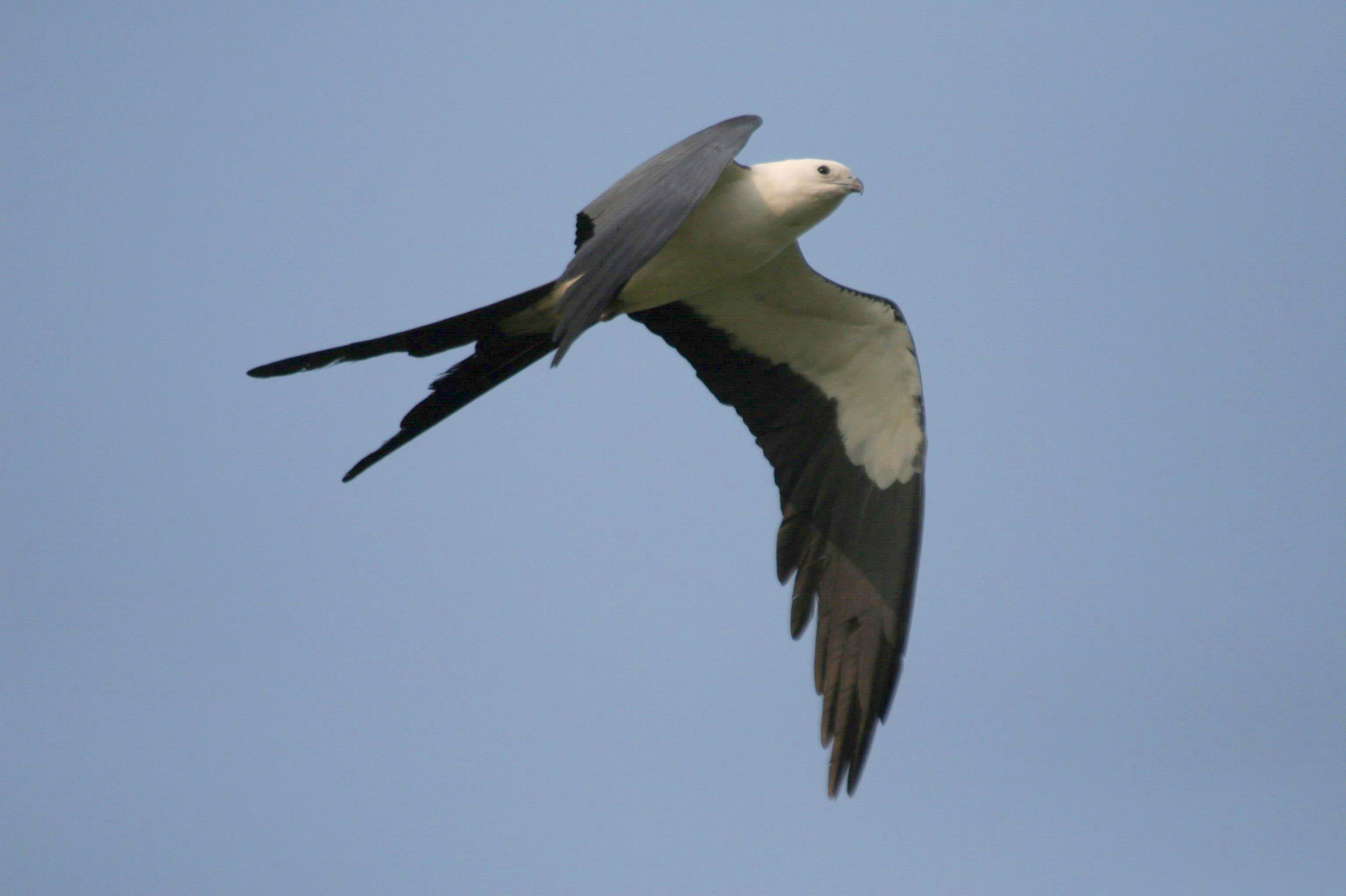 One Swallow-tailed Kite rising from a roosting place of hundreds of kites on the early morning thermals. Hundreds of Swallow-tailed Kites gather each summer at roosts in Florida and fly up from their roosts on morning thermals to start their daily soaring for food. This is one of many near the St. Johns River in Florida before they leave on their yearly journey to Brazil.